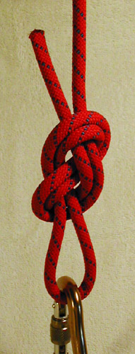 figure-of-eight follow through, taken by me